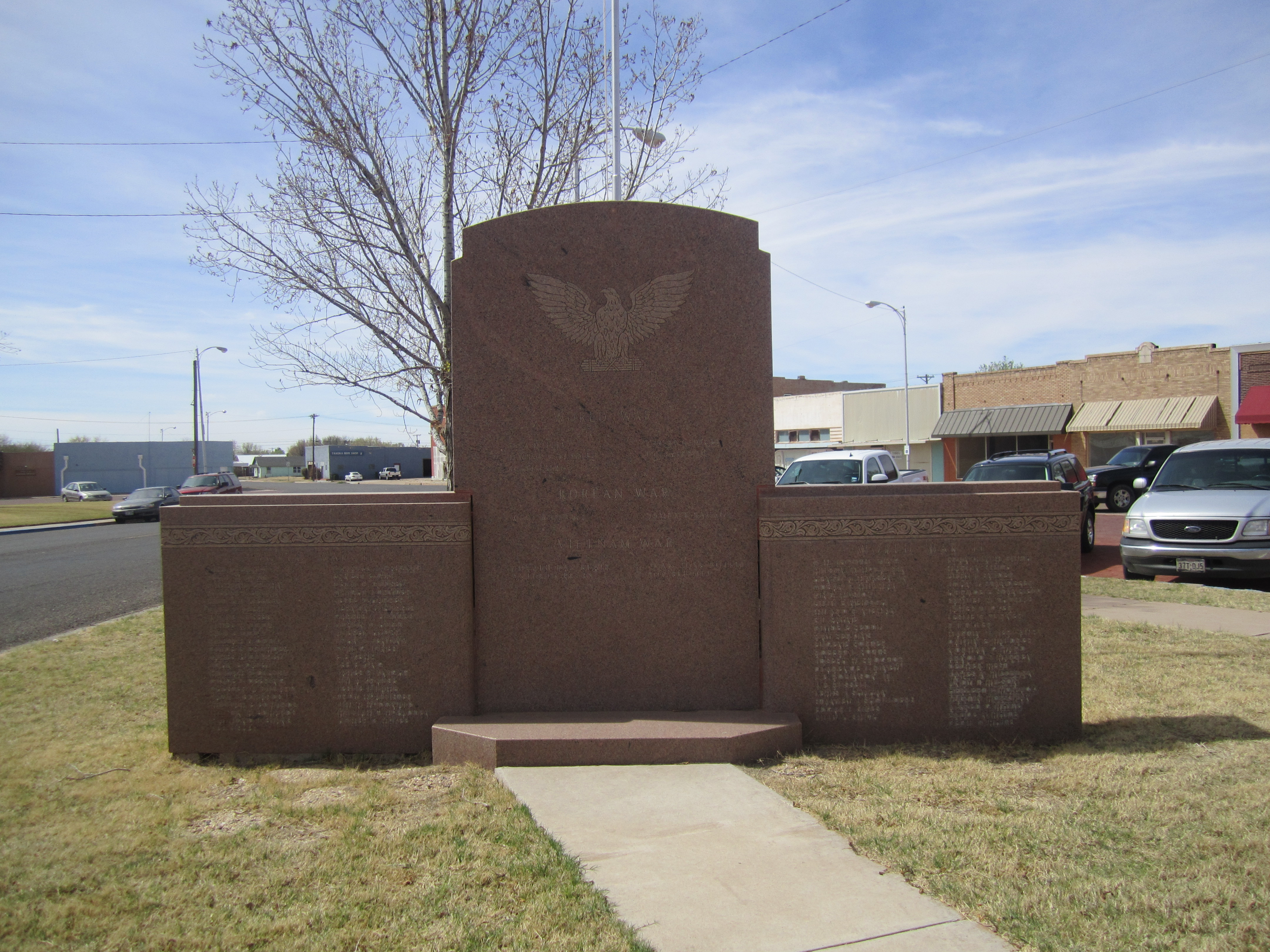 I took photo with Canon camera in Tahoka, TX.